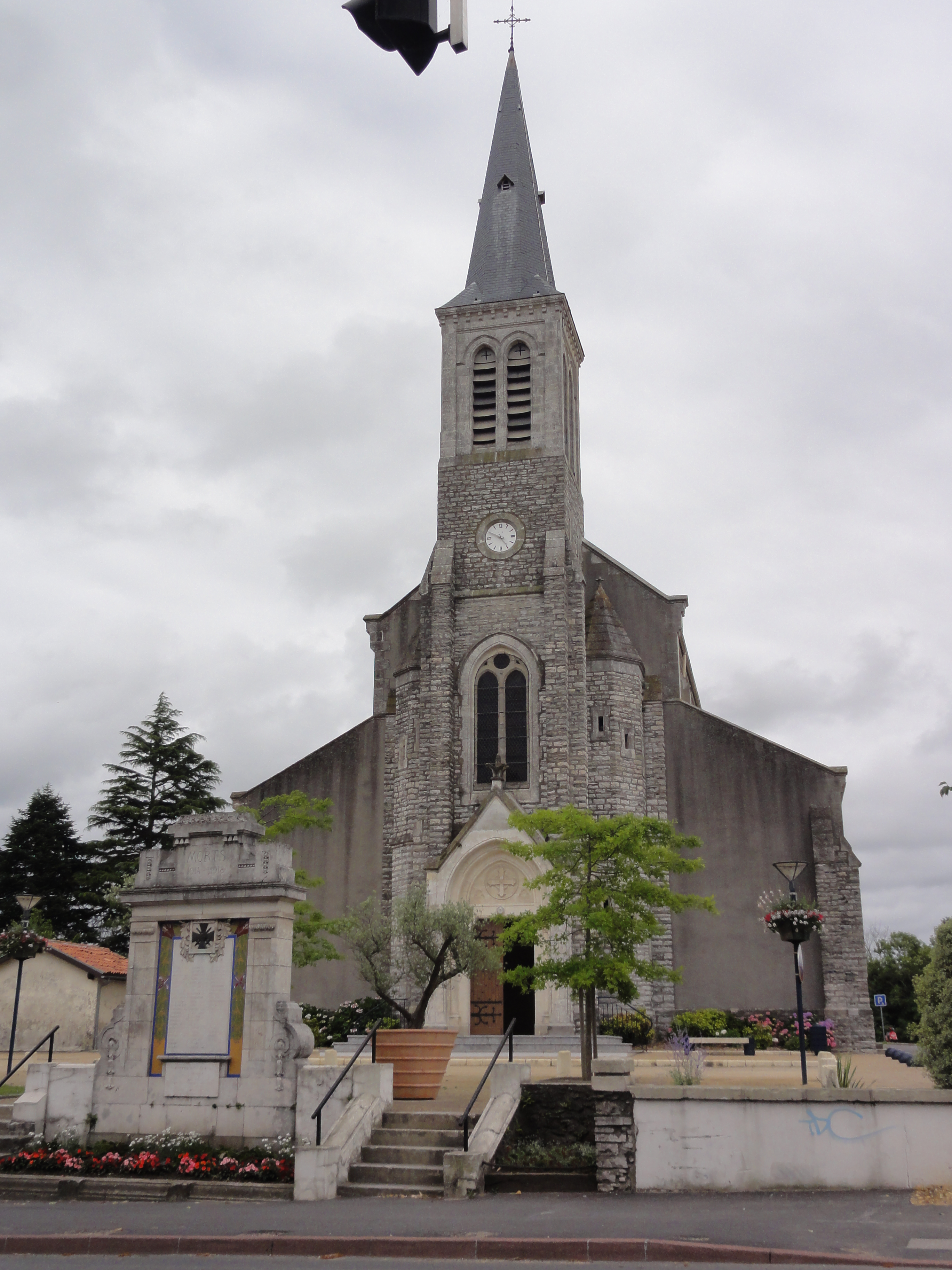 Ondres (Landes) église